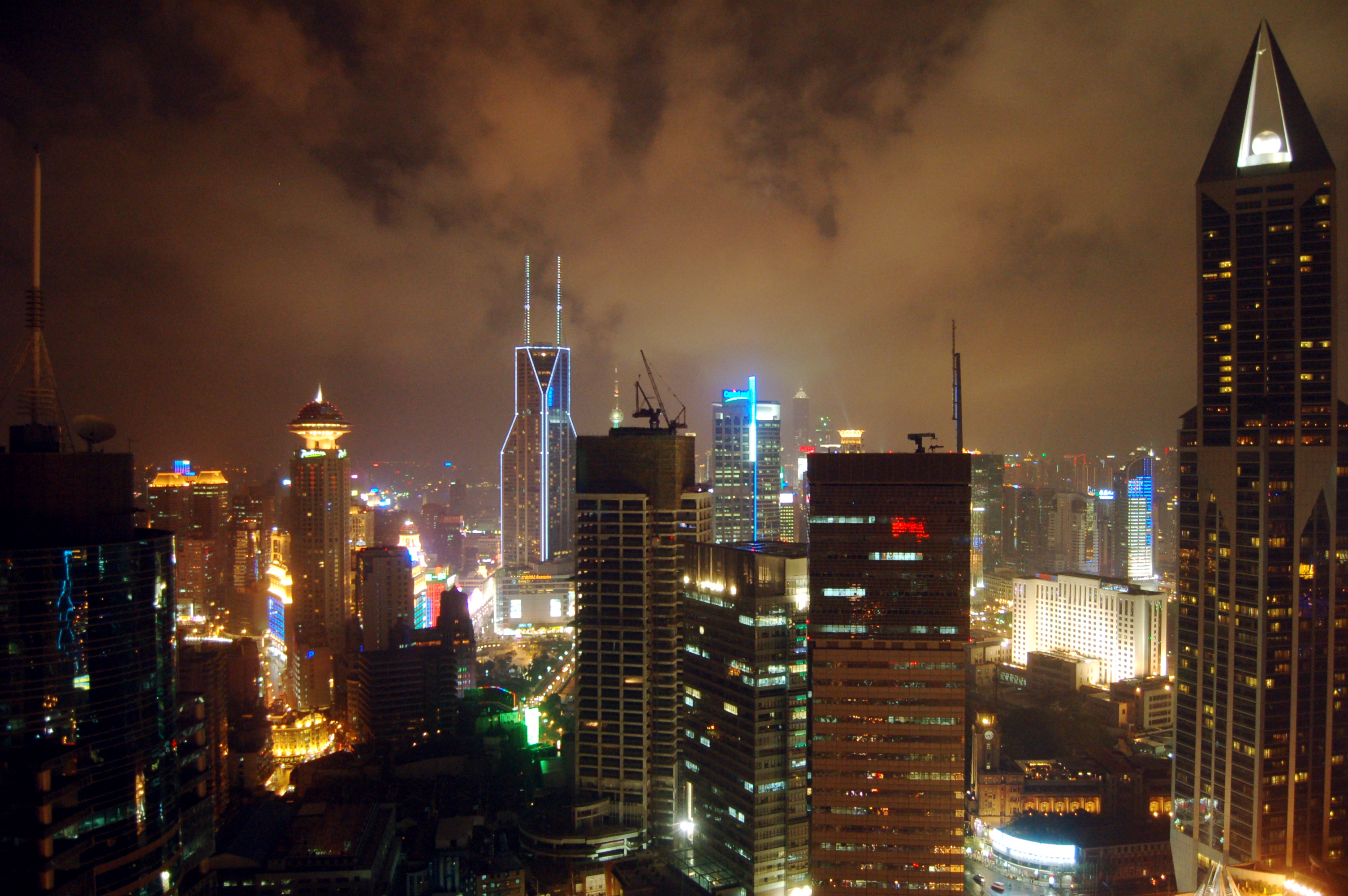 Night view of Shanghai's Puxi (West bank) skyline